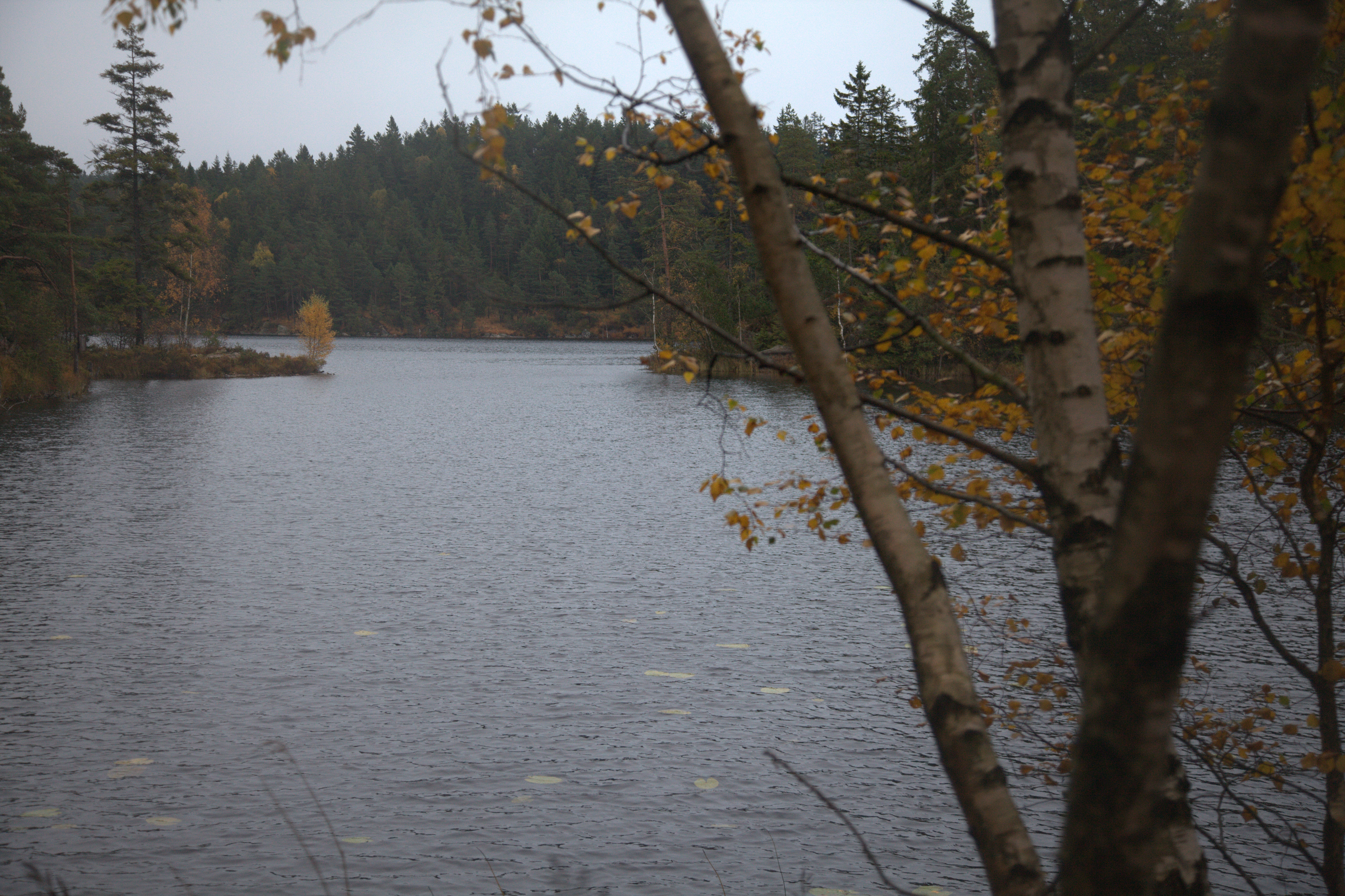 Korsvatten i Kungälvs kommun. Nordvästra delen